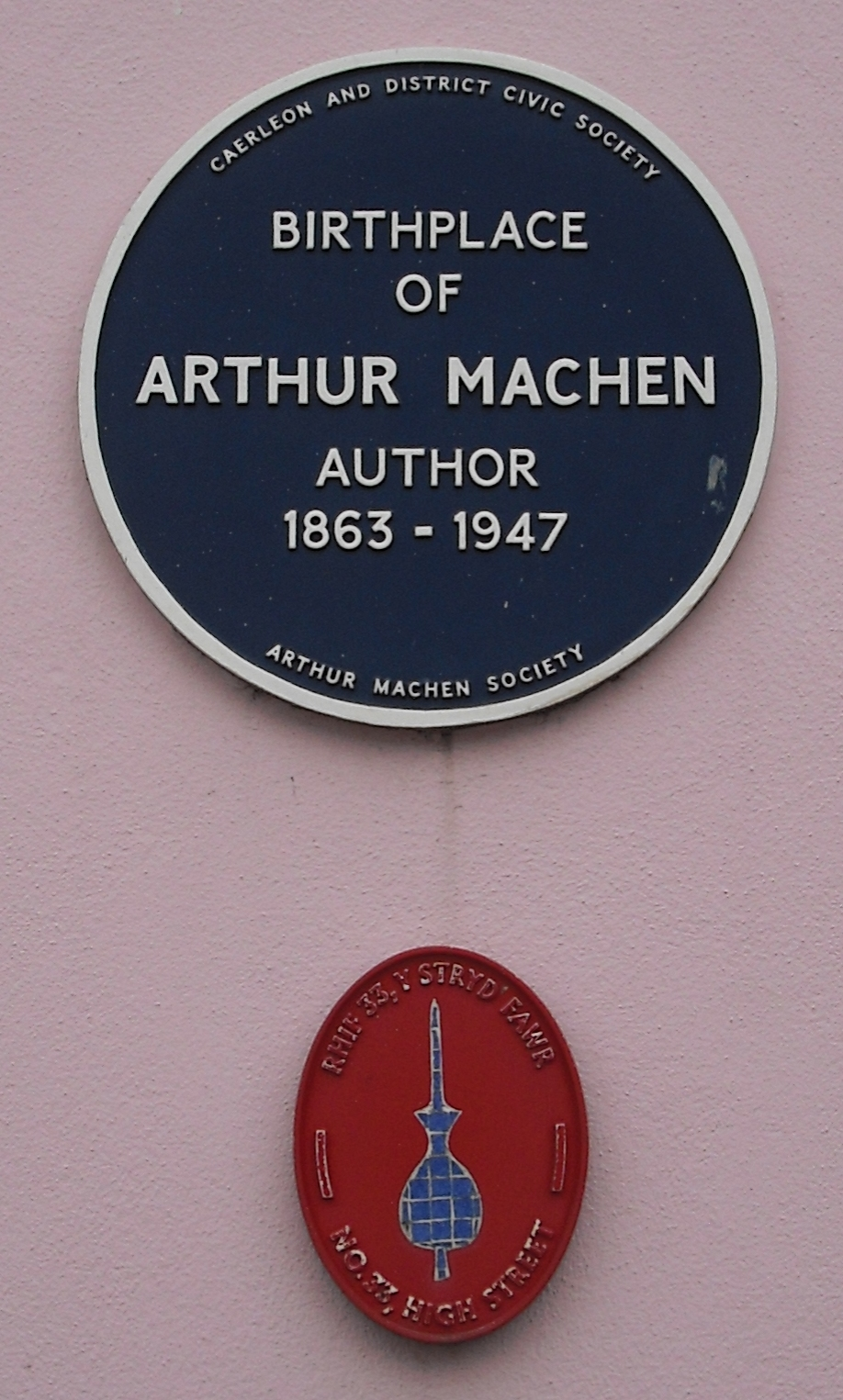 Plaque at birthplace of Arthur Machen at The Square, High Street, Caeeleon, Wales.